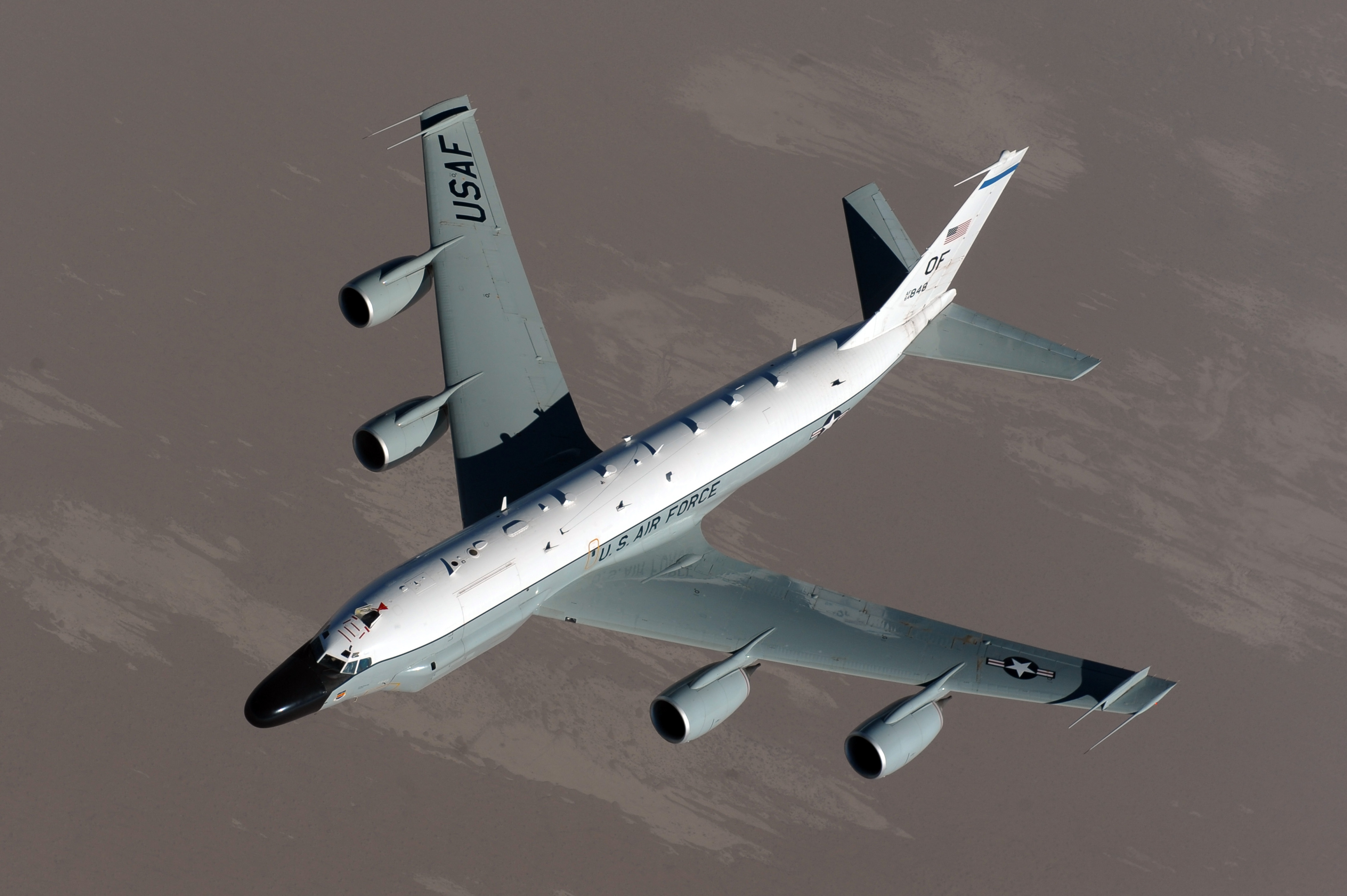 A RC-135 Rivet Joint, assigned to the 763rd Expeditionary Reconnaissance Squadron, flies over Afghanistan in support of Operation Enduring Freedom, June 19, 2011. The RC-135 Rivet Joint reconnaissance aircraft supports theater and national level consumers with near real time on-scene intelligence collection, analysis and dissemination capabilities. U.S. Air Forces Central Public Affairs Photo by Master Sgt. William Greer Date Taken:06.19.2011 Location:AF Related Photos